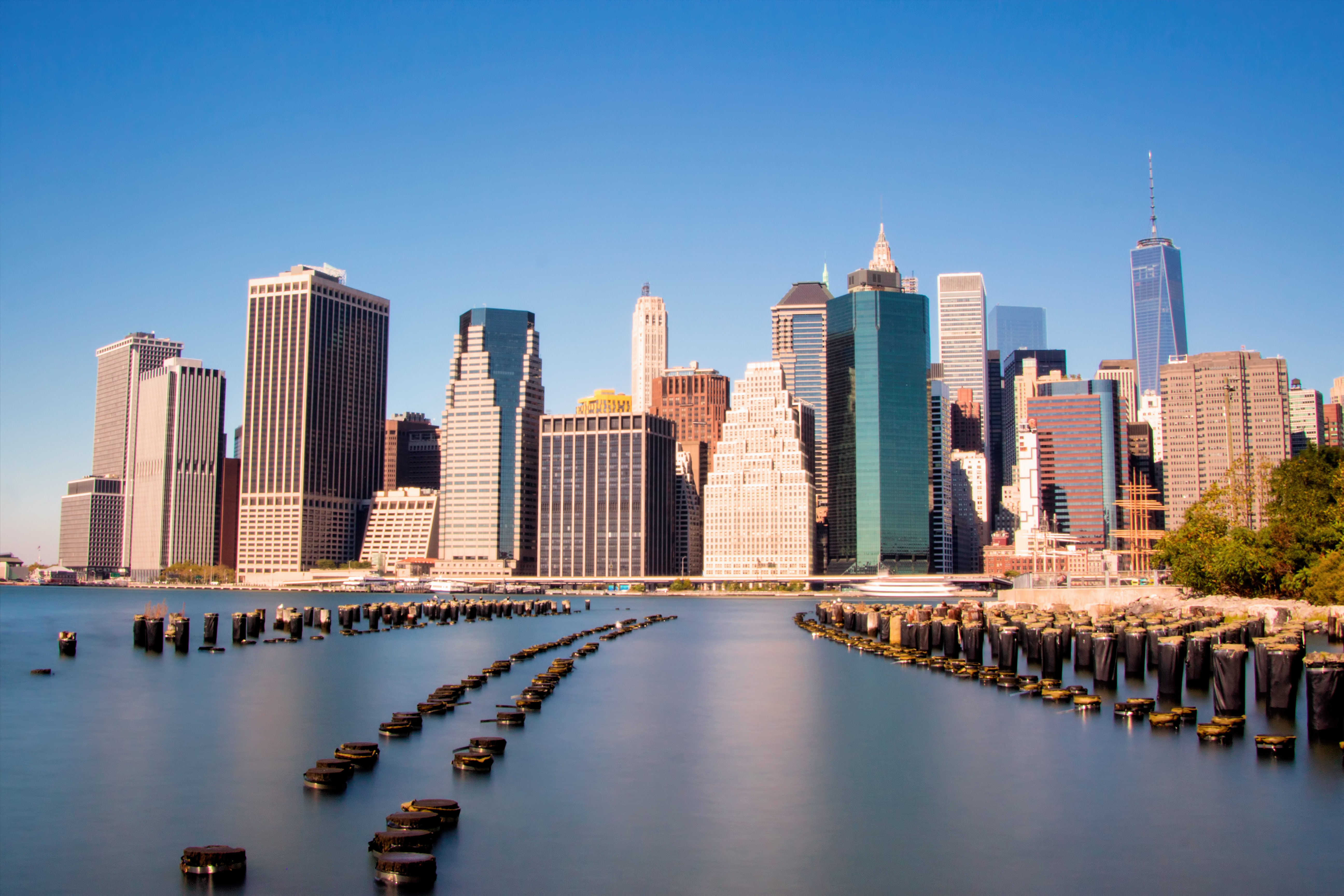 Lower Manhattan viewed from Brooklyn